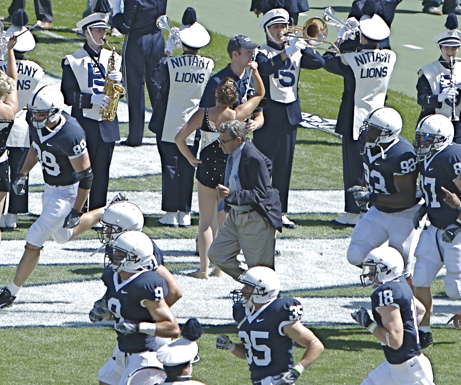 Penn State Head Coach Joe Paterno runs out with his team. Penn State took on Florida International University at Beaver Stadium in University Park, PA on Saturday September 1, 2007. The final score was 59-0 with Penn State as the victor.